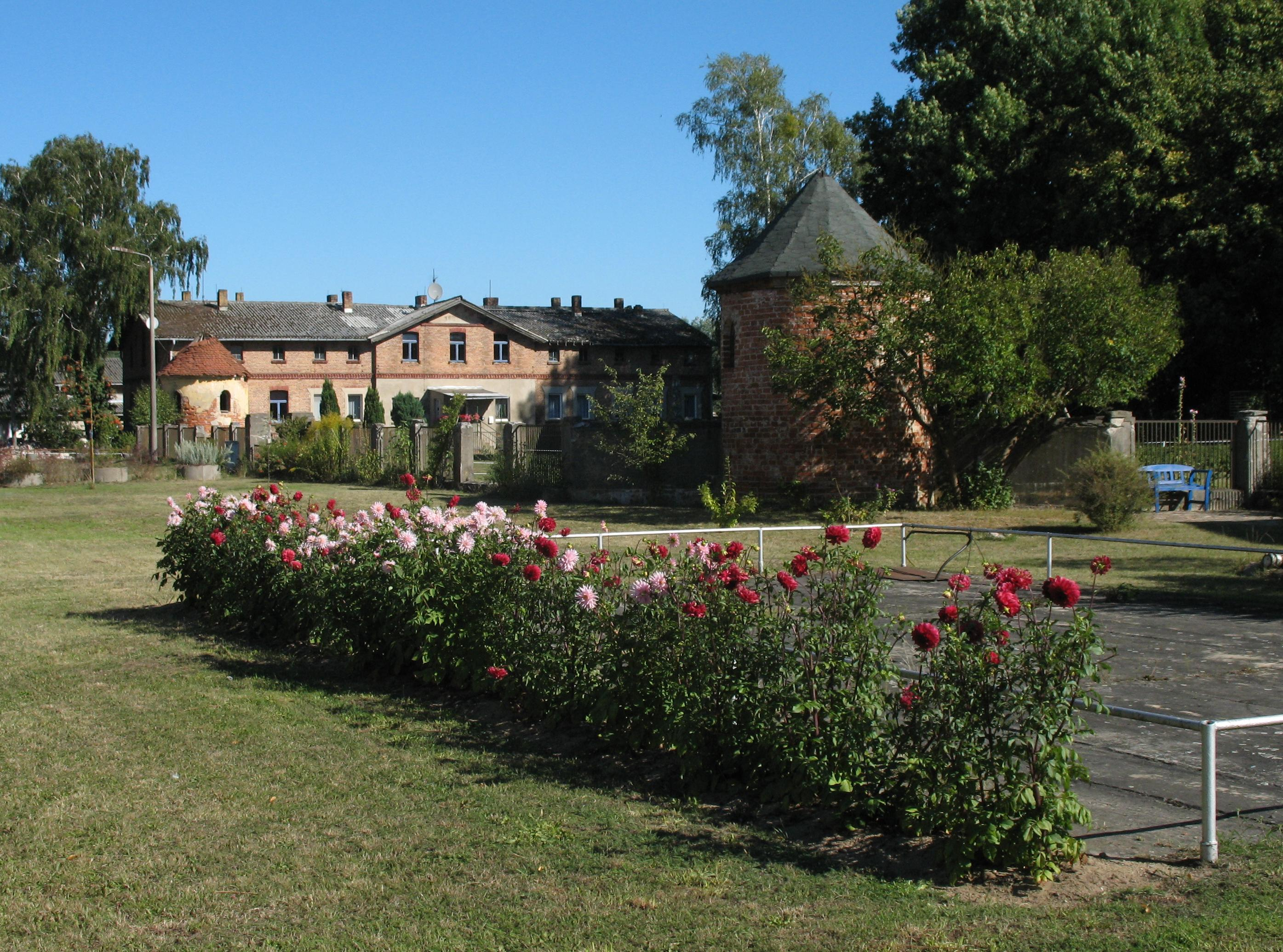 Former manor in Fürstenberg-Blumenow in Brandenburg, Germany